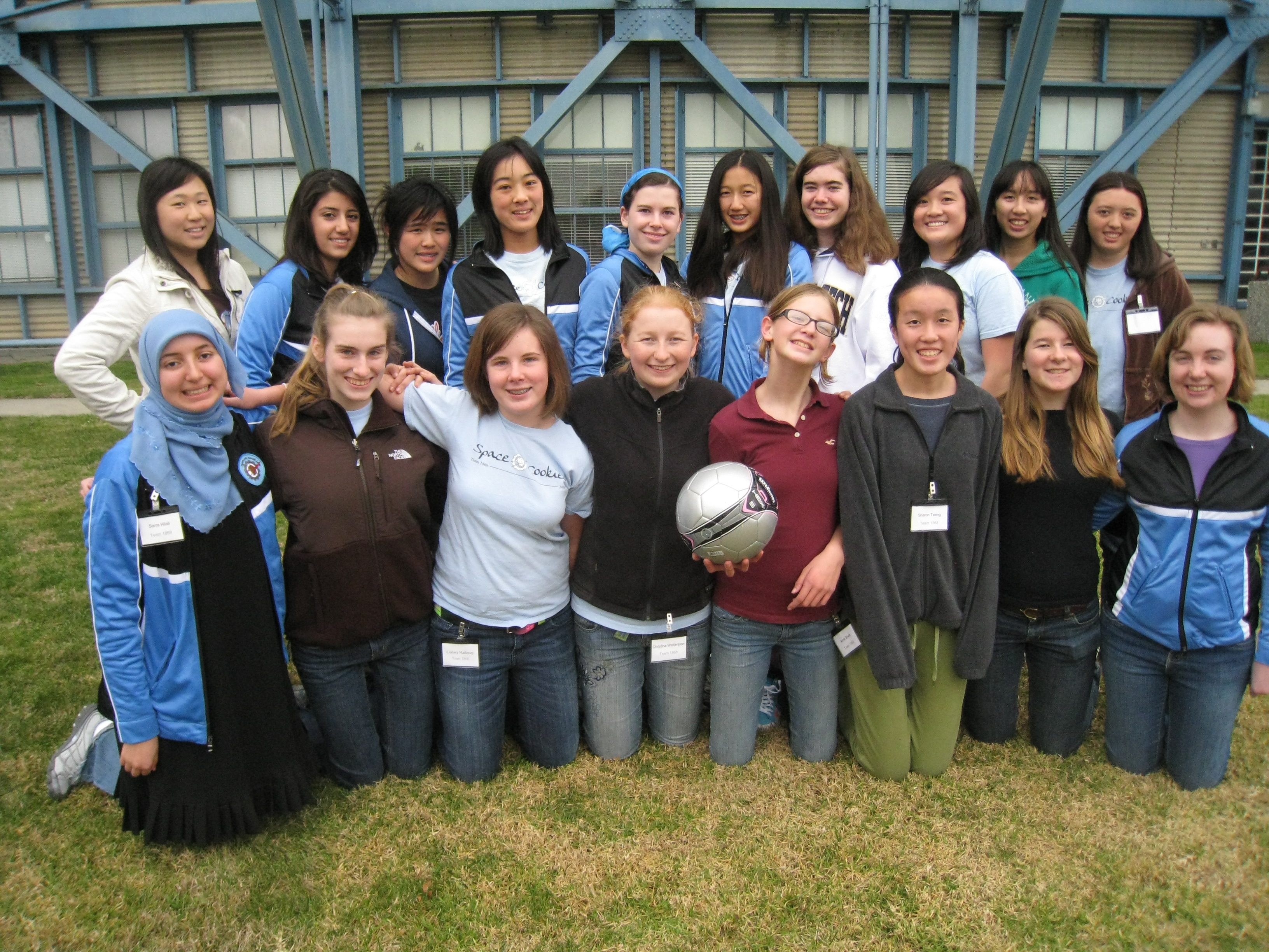 The Space Cookies are getting ready for their fifth season of FIRST Robotics.